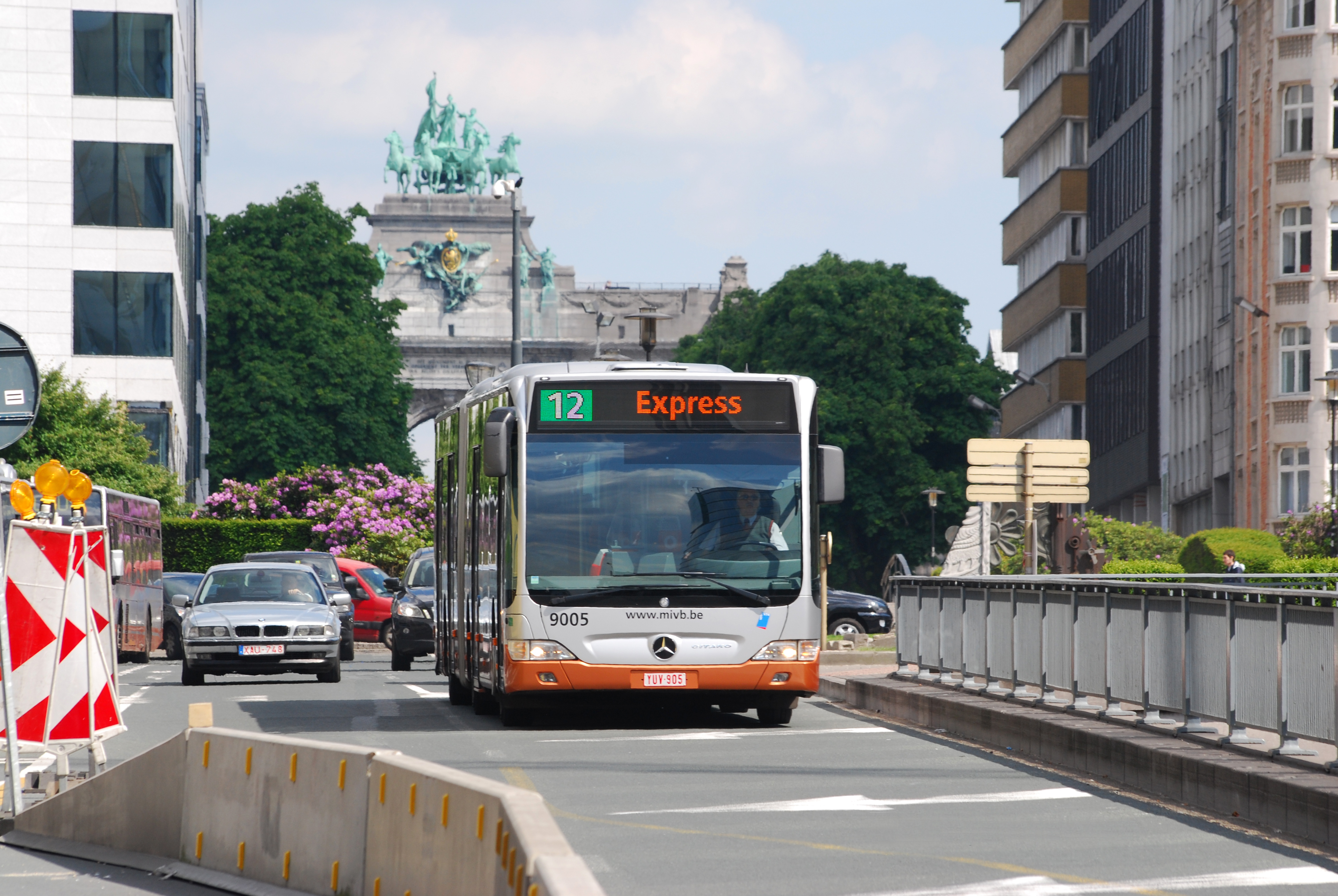 Bus stib